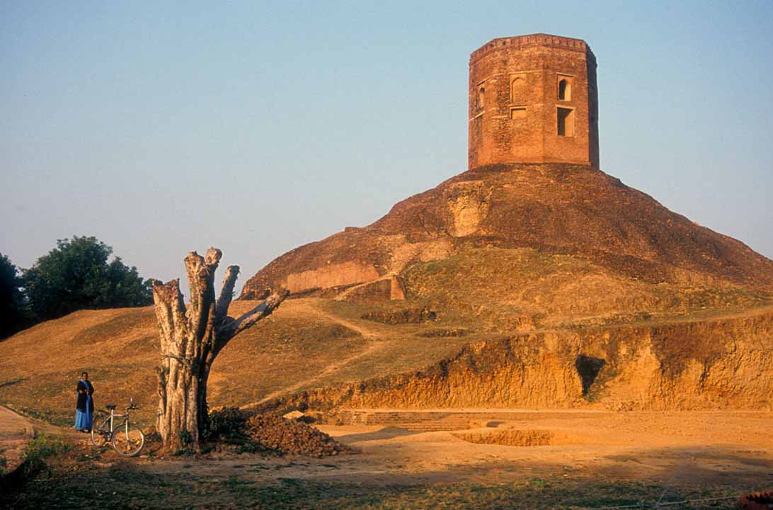 Chaukhandi Stupa, a Buddhist stupa in Sarnath, located 13 kilometres from Varanasi, Uttar Pradesh, India.